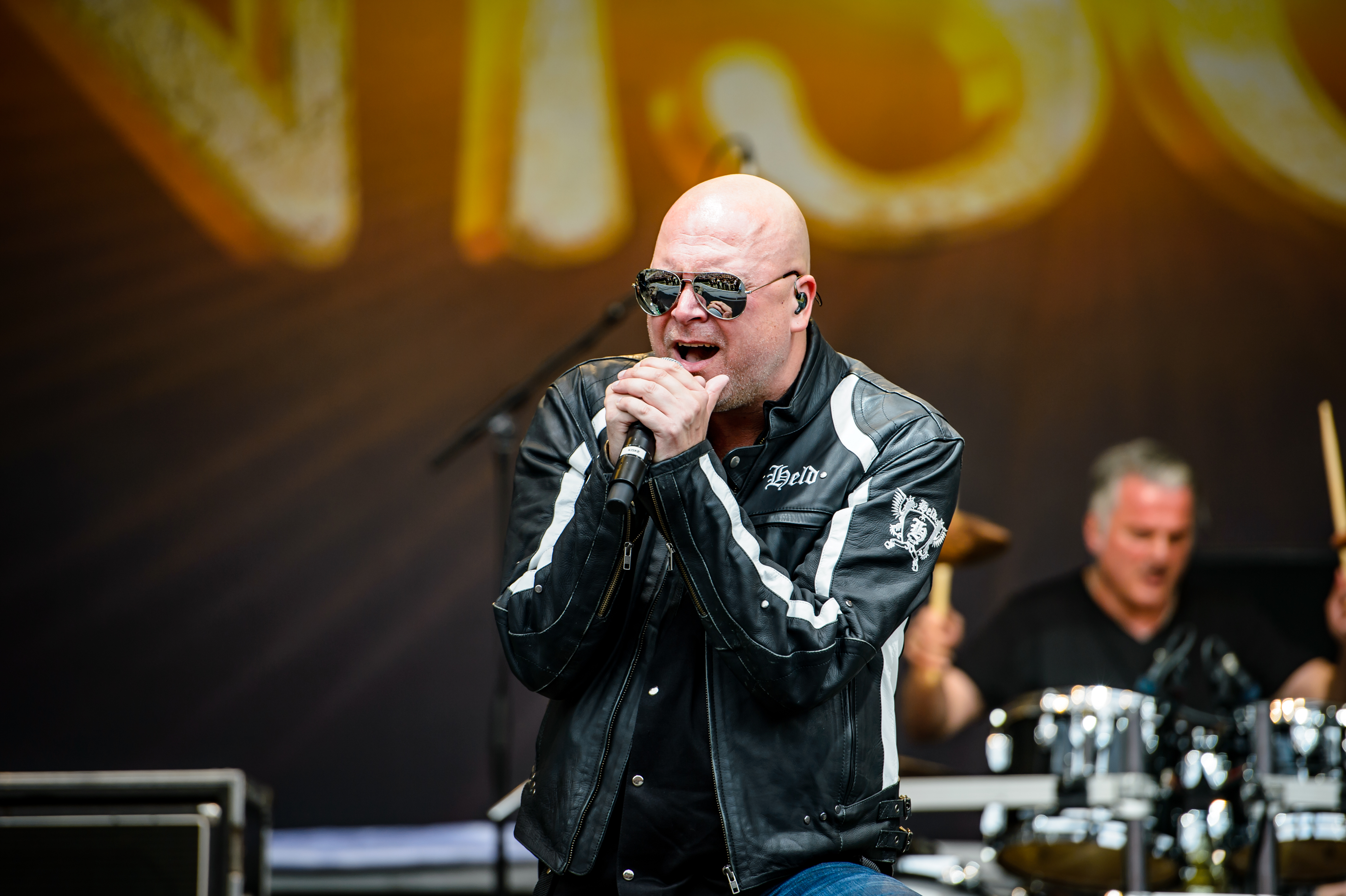 Unisonic; RockFels 2016 - Loreley